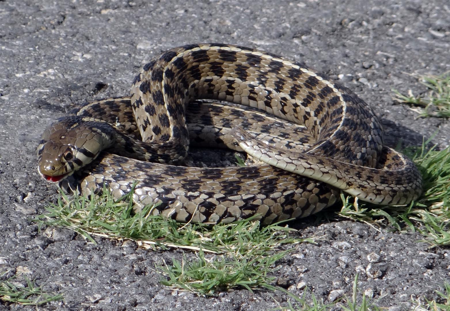 Checkered Garter Snake